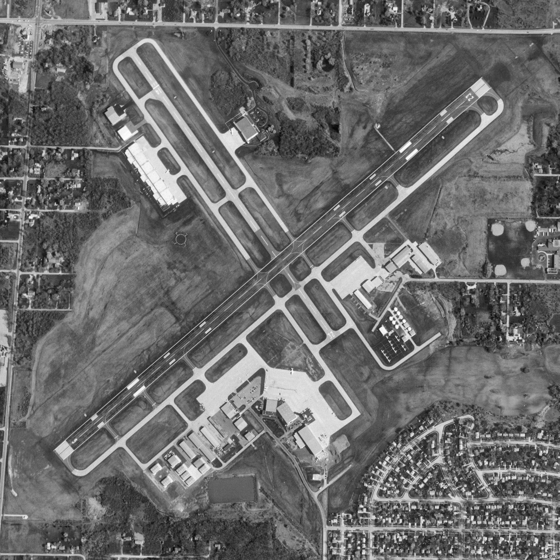 USGS digital orthophoto of Waukegan Regional Airport in Waukegan, Illinois, United States.